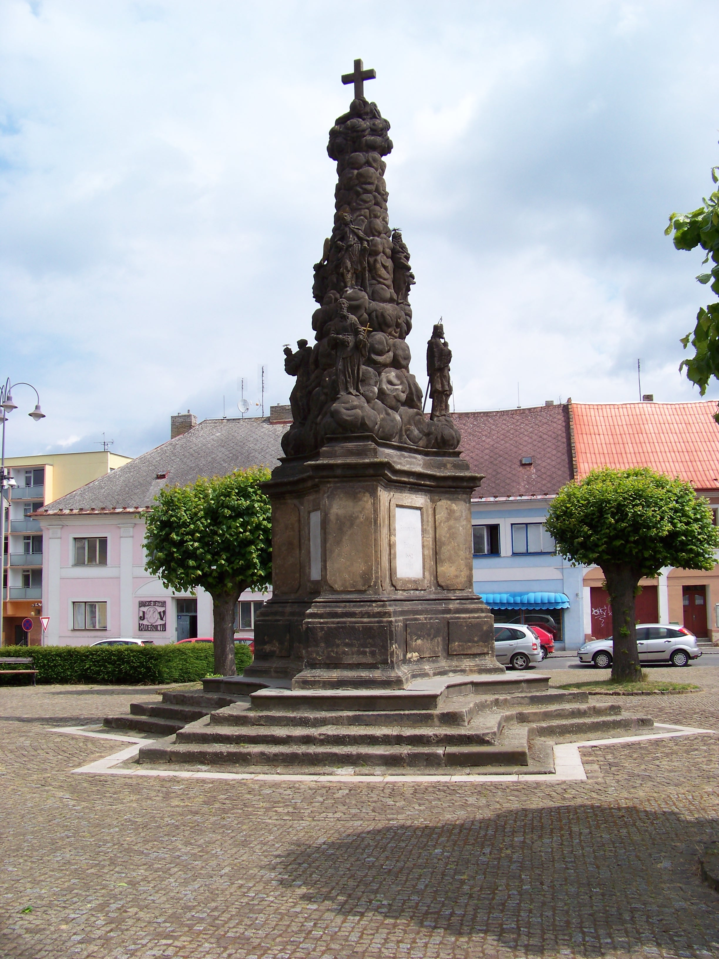 Dubá, Česká Lípa District, Liberec Region, Czech Republic. Masarykovo náměstí, Holy Trinity column.